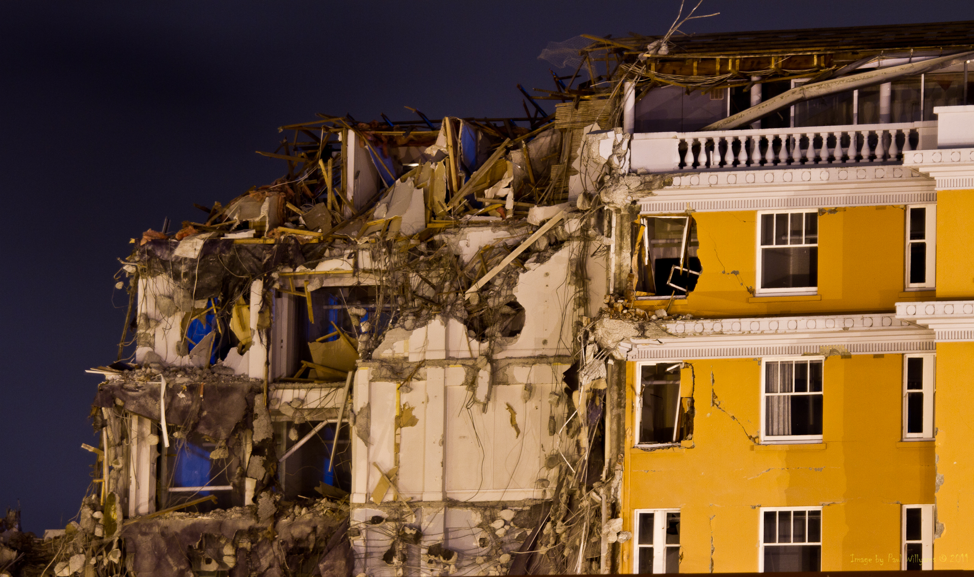 Demolition of St Elmo Courts underway.